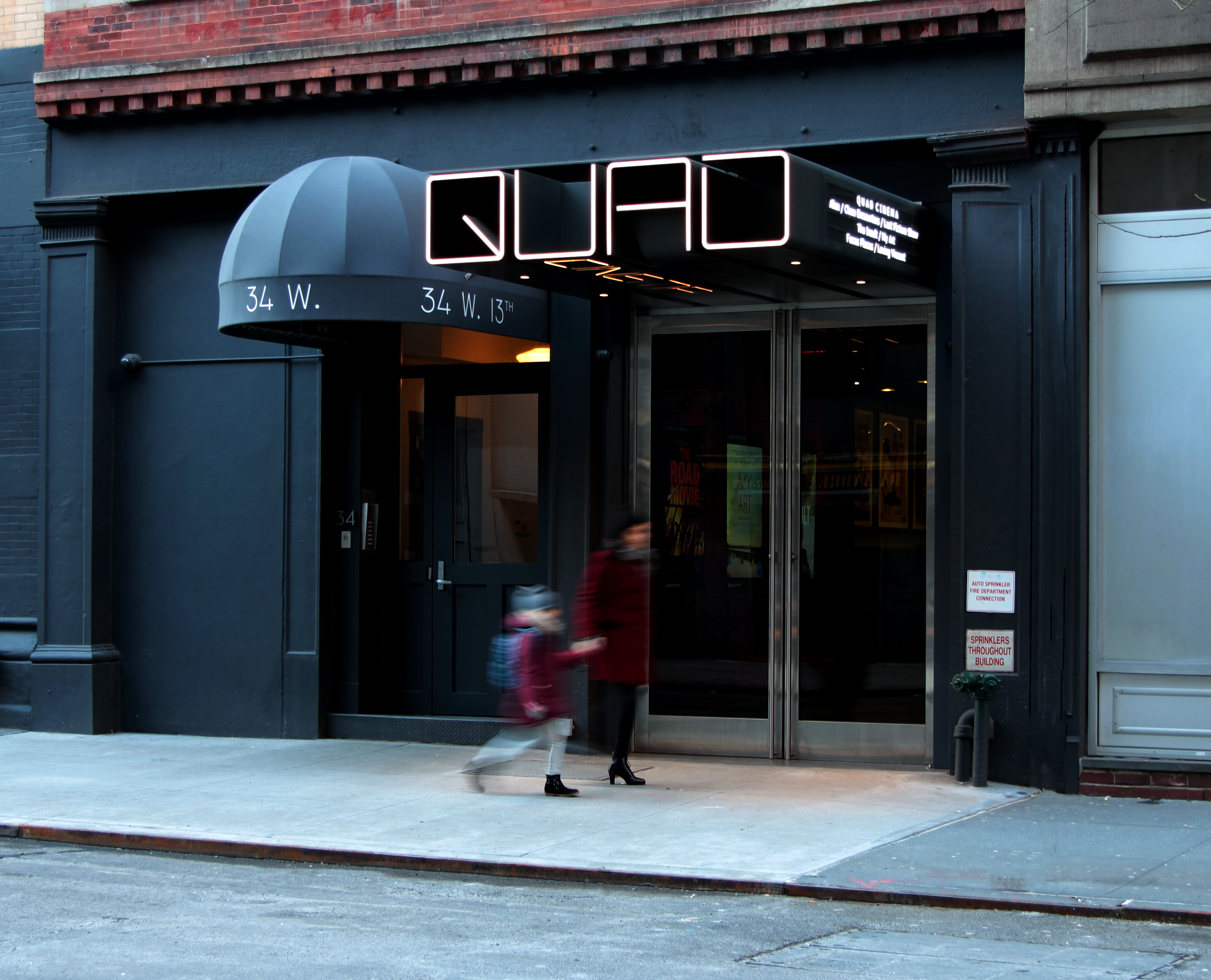 Quad Cinema Theater Exterior with Rebranding by Pentagram and Fabrication by DCL (Design Communications Ltd.)